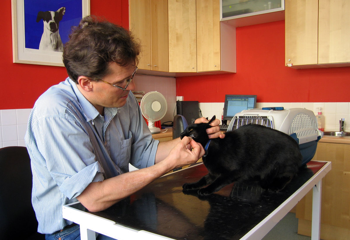 Veterinary surgeon at work, removing stitches following minor surgery on an abscess on cat's face. Patrick von Heimendahl, MRCVS of Clarendon Street Veterinary Surgery, Cambridge, UK with Jules a black tom cat.